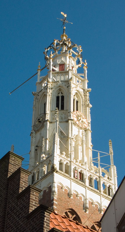 Bakenesserkerk (Bakenesser church) in Haarlem, The Netherlands